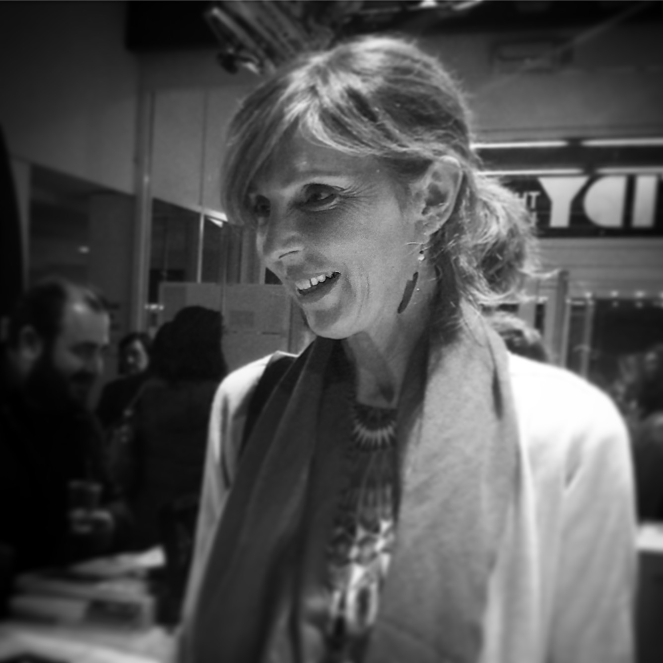 Swiss writer Laurence Boissier, march 2018